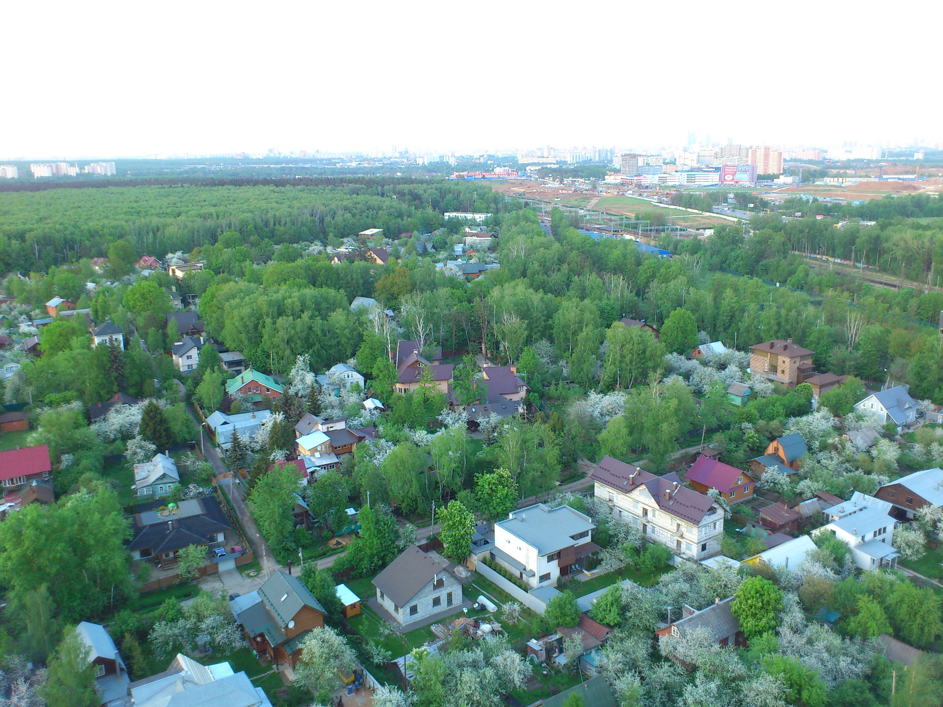 Odintsovo, Moscow Oblast, Russia